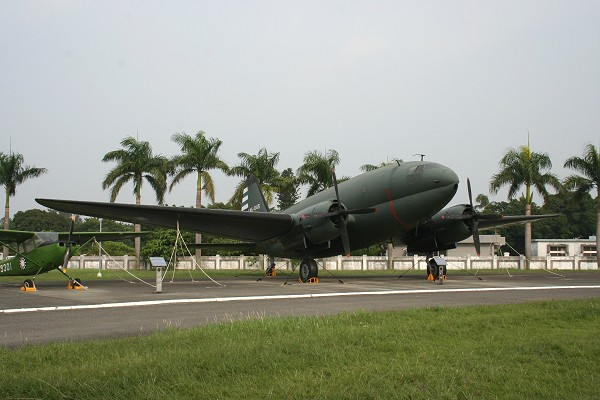 Curtiss C-46 from RoCAF displayed at the Air Force Museum, Gangshan, Taiwan